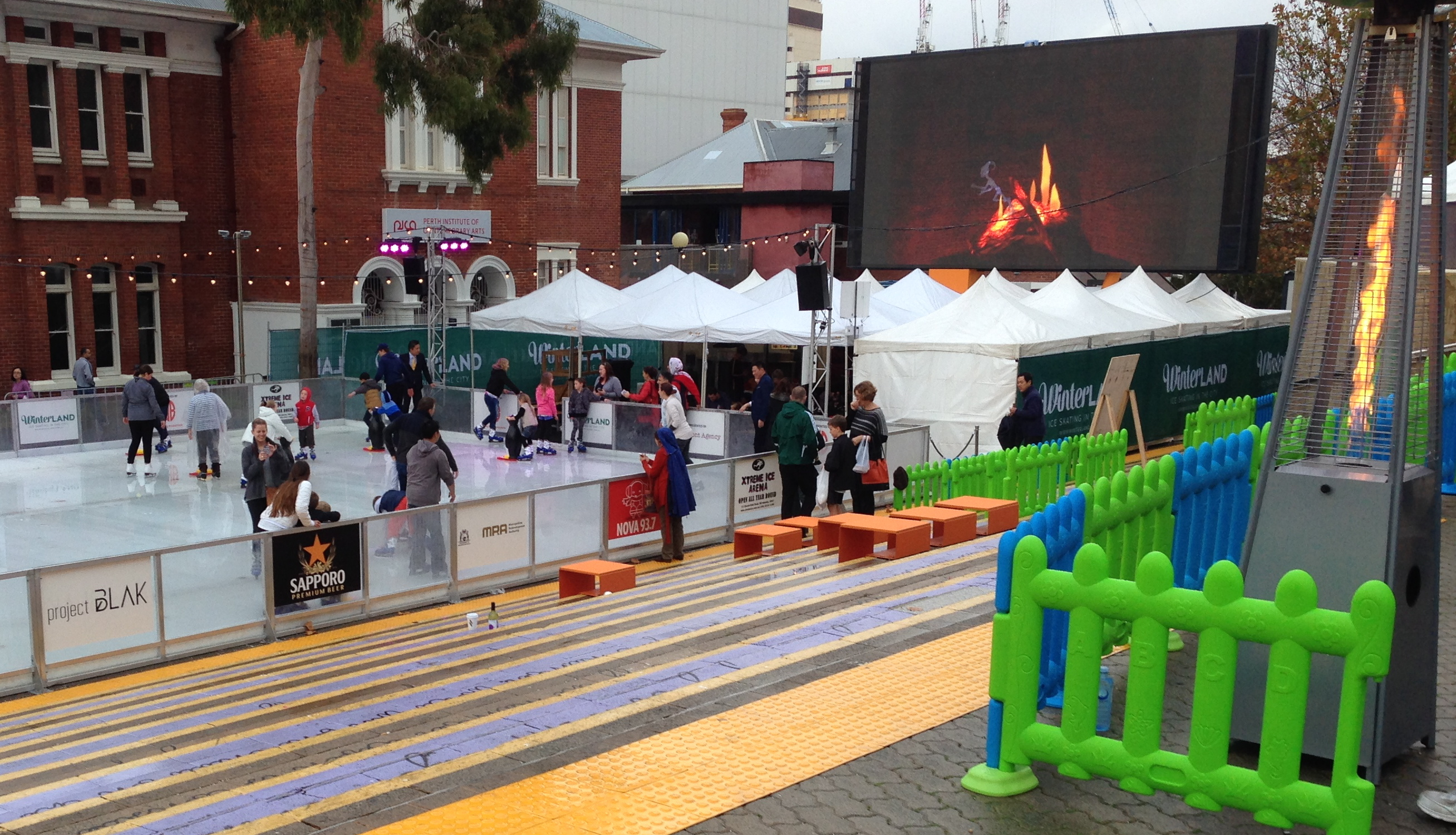 James Street Perth - Western Australia - space between State Library and PICA - school holiday open-air ice rink, screen with flame, and real flame (fire and ice literally) - first day of school hoilidays